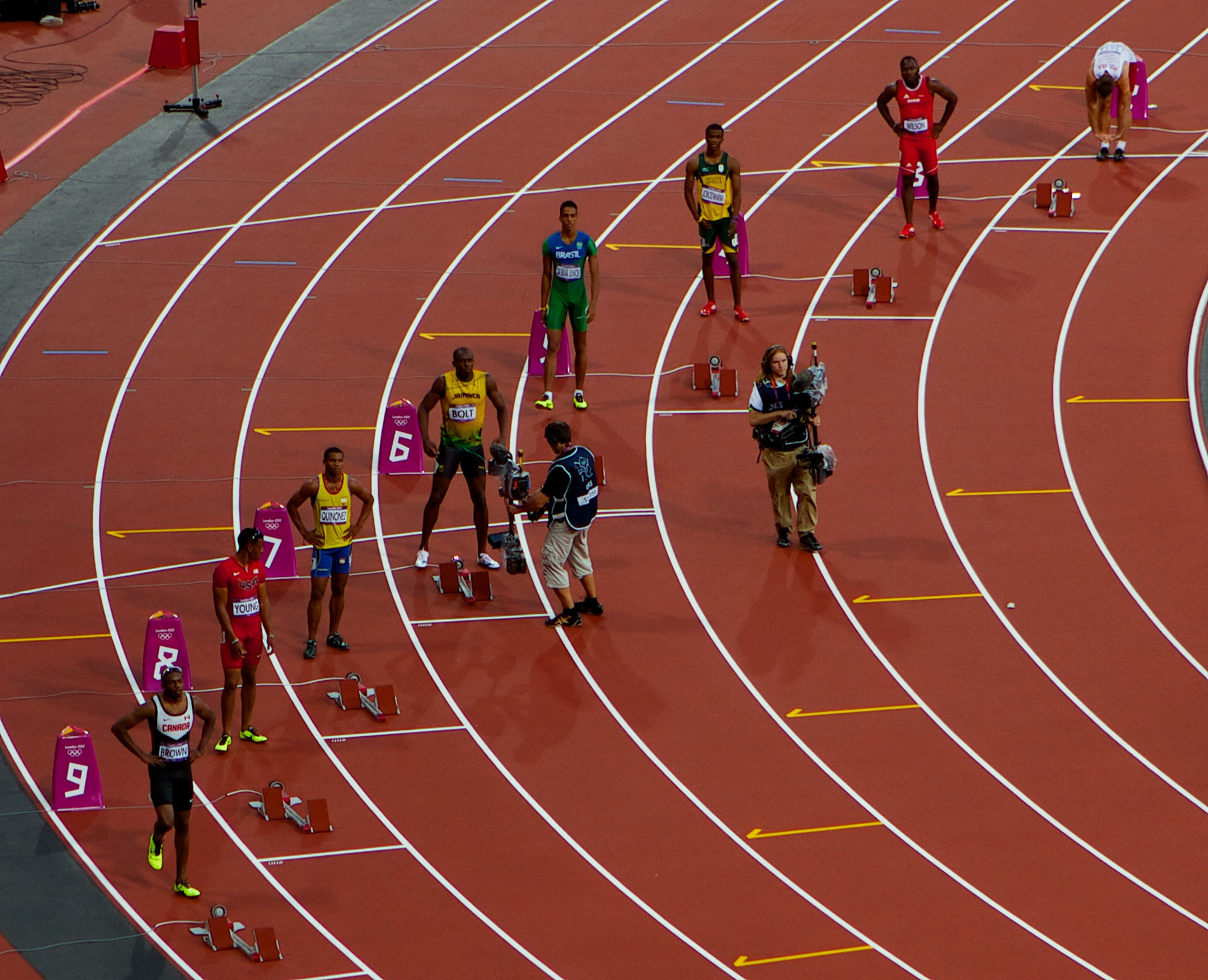 Start of the the second semifinal of the 2012 Olympic men's 200m, Aaron Brown, Isiah Young, Alex Quiñónez, Usain Bolt, Aldemir da Silva Junior, Anaso Jobodwana, Alex Wilson, Kamil Kryński